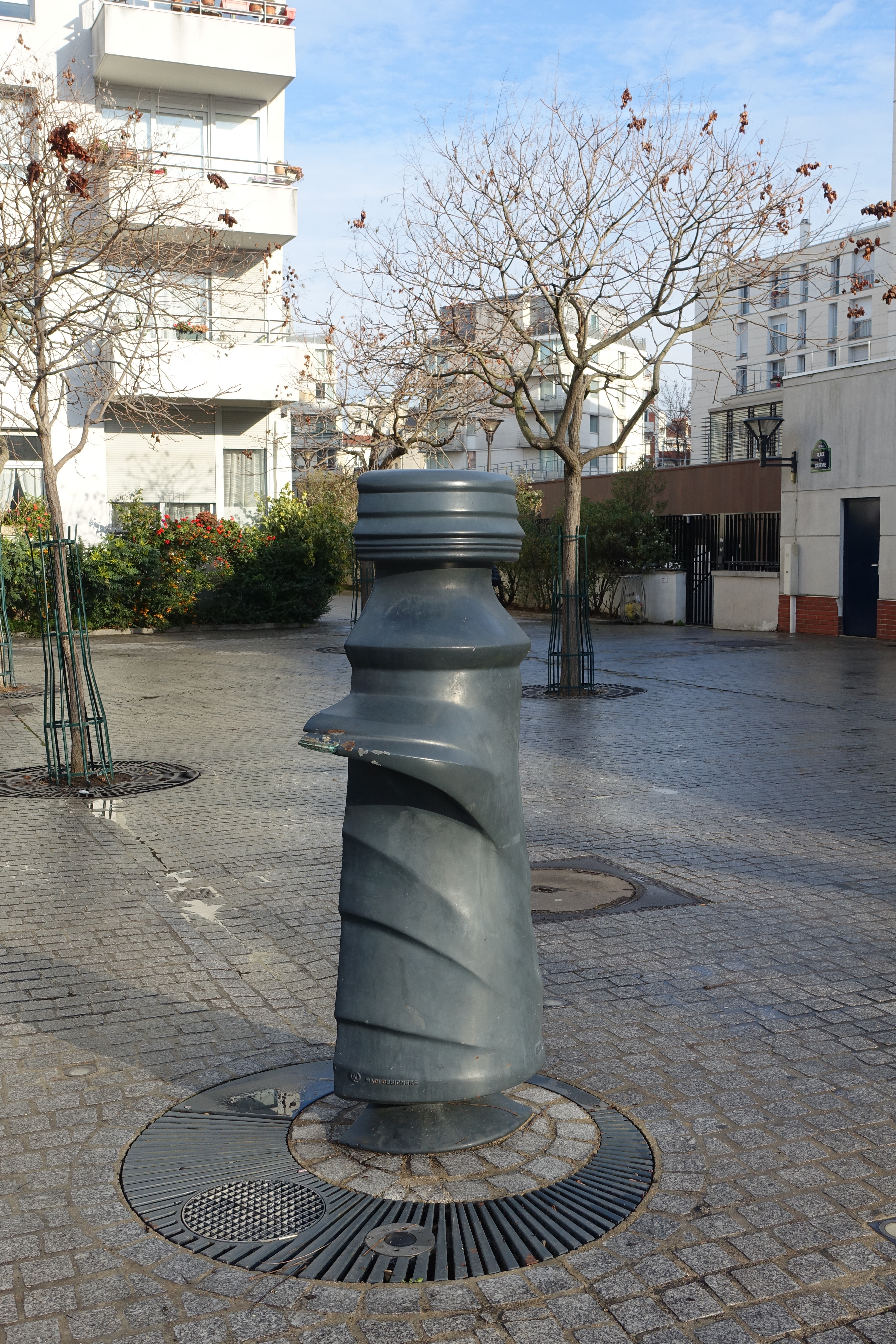 Jardin de la ZAC Didot, a garden in Paris 14e arrondissement, France.